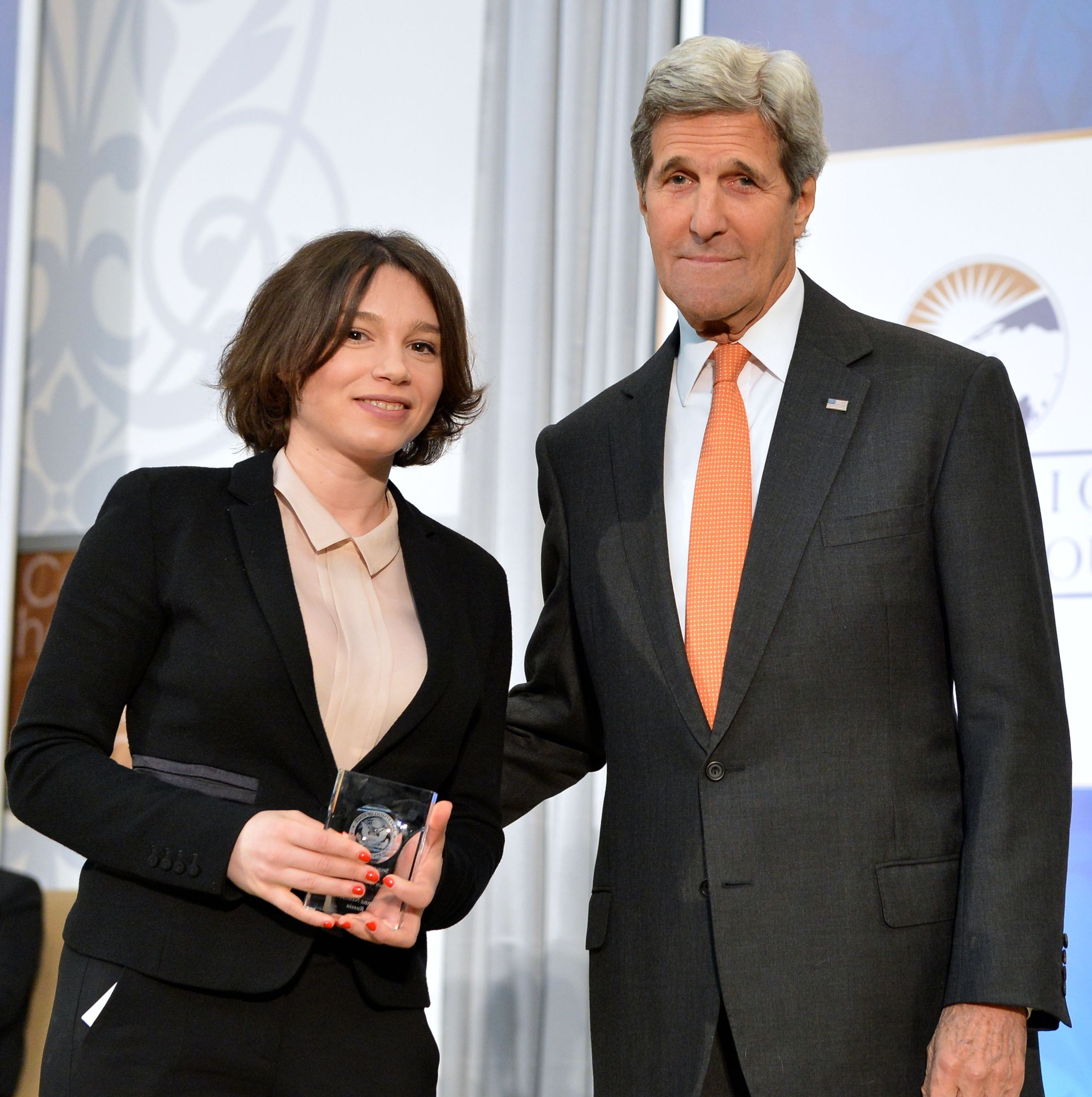 International Women of Courage Awards 2016